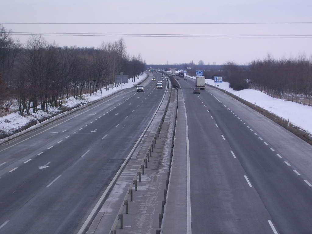 The M5 motorway, near Pusztavacs, Hungary